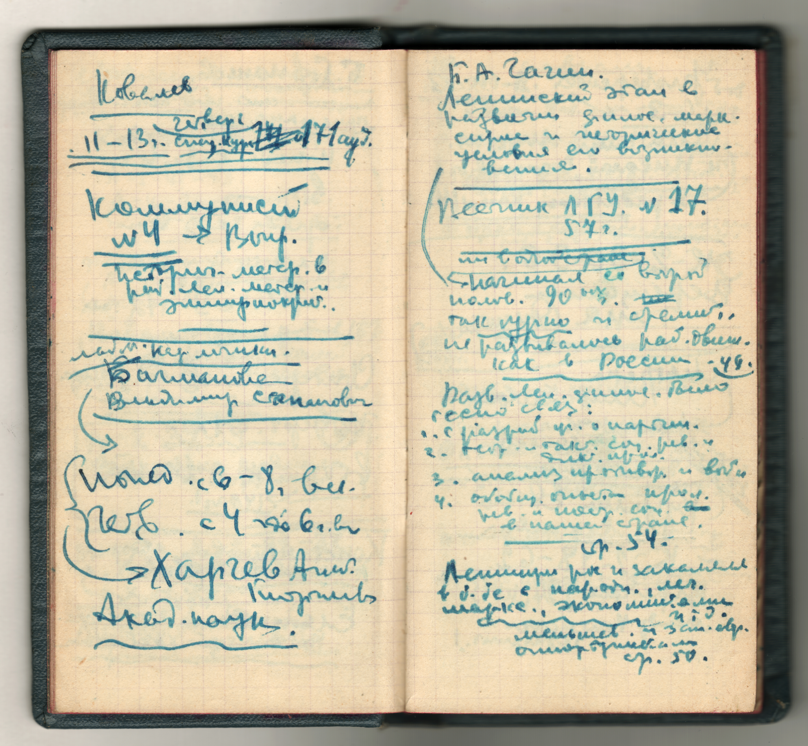 Boris Parygin Notebook / February - July